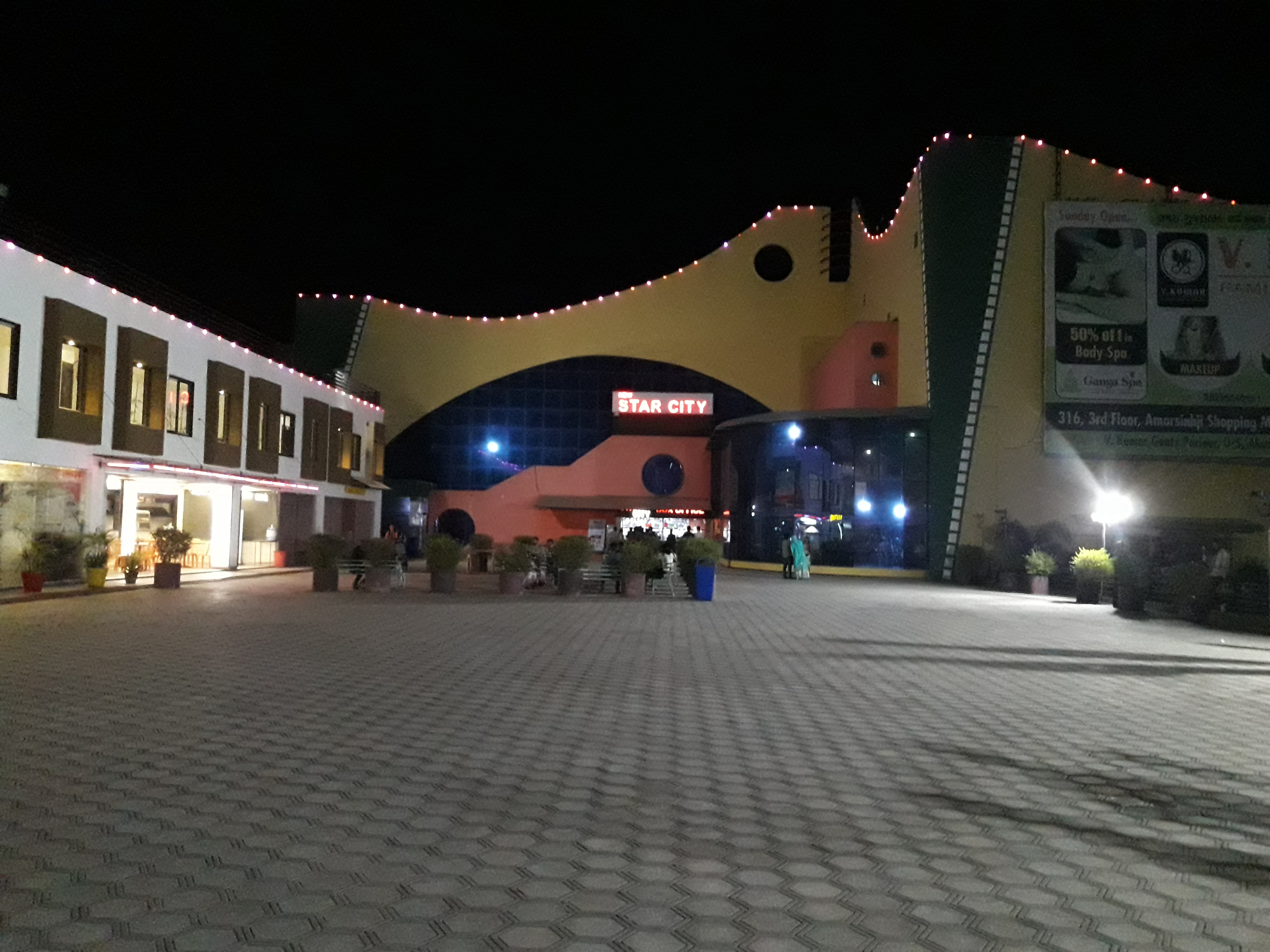 Star City Multiplex movie theatre in Himatnagar, Gujarat, India.